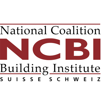 NCBI Switzerland Logo